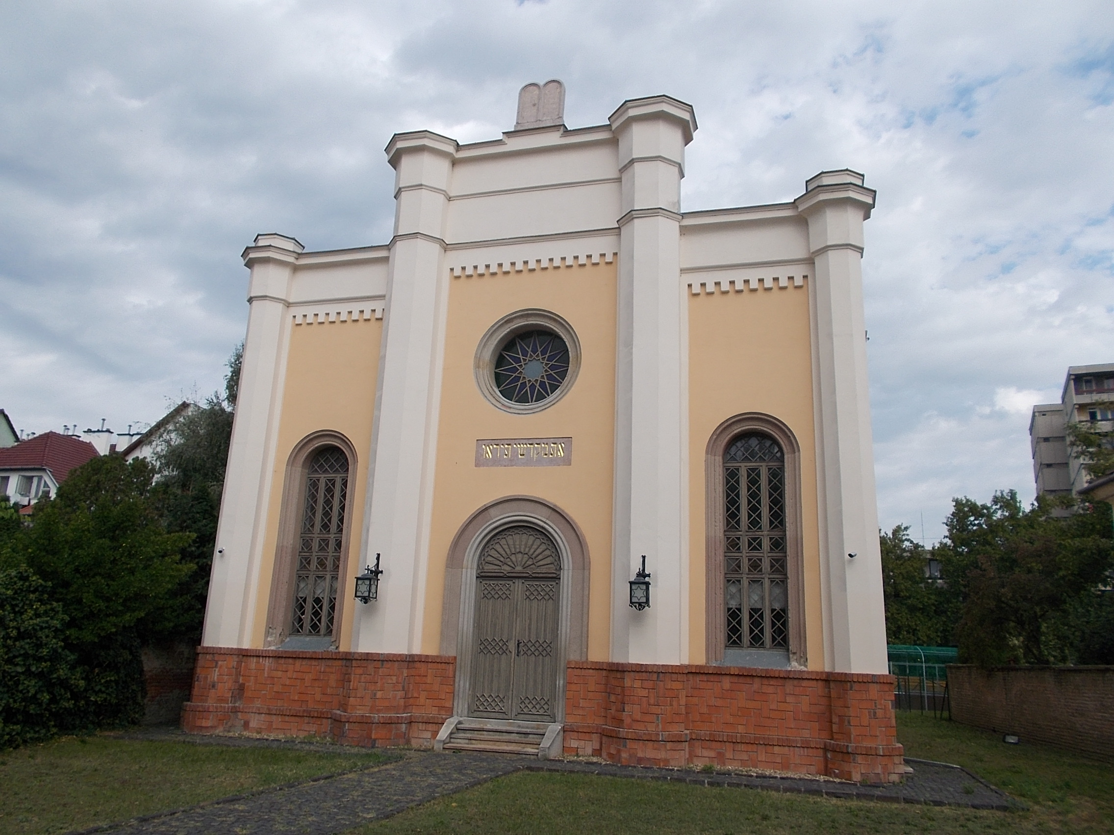 Vác Synagogue. The synagogue built by the Italian architect Abbis Cacciari in 1864. Romantic style. Reconstructed in 2005. - Csányi László Blvd., Eötvös Street, Vác, Pest County, Hungary.